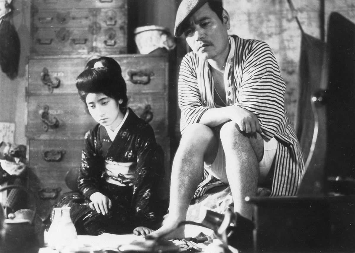 Nobuko Fushimi and Takeshi Sakamoto in Dekigokoro (出来ごころ) directed by Yasujirō Ozu - 1933